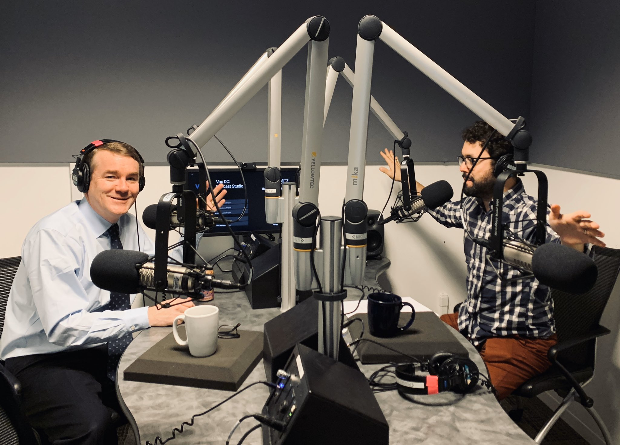 Starting the morning with @zackbeauchamp on @voxdotcom #WorldlyPodcast—catch the episode later today to hear our reaction to #DemDebate foreign policy questions & discussion on authoritarianism, pluralism and the need to beat Trump & restore American leadership around the world.